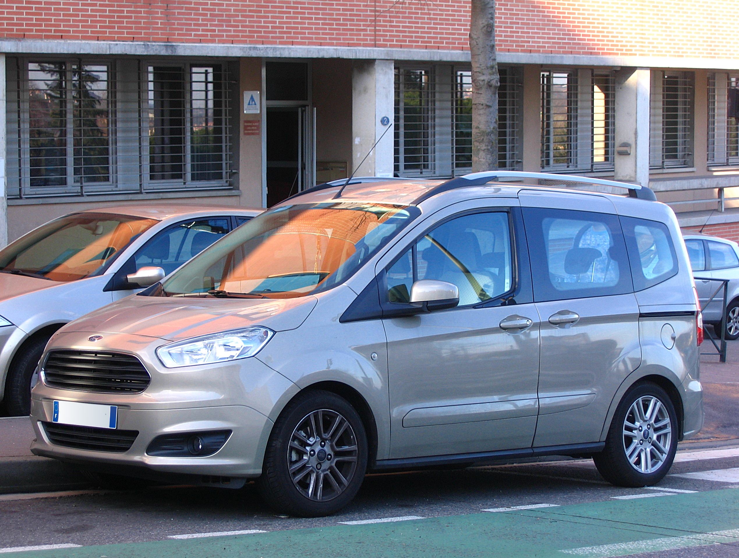 2014 Ford Tourneo Courier.